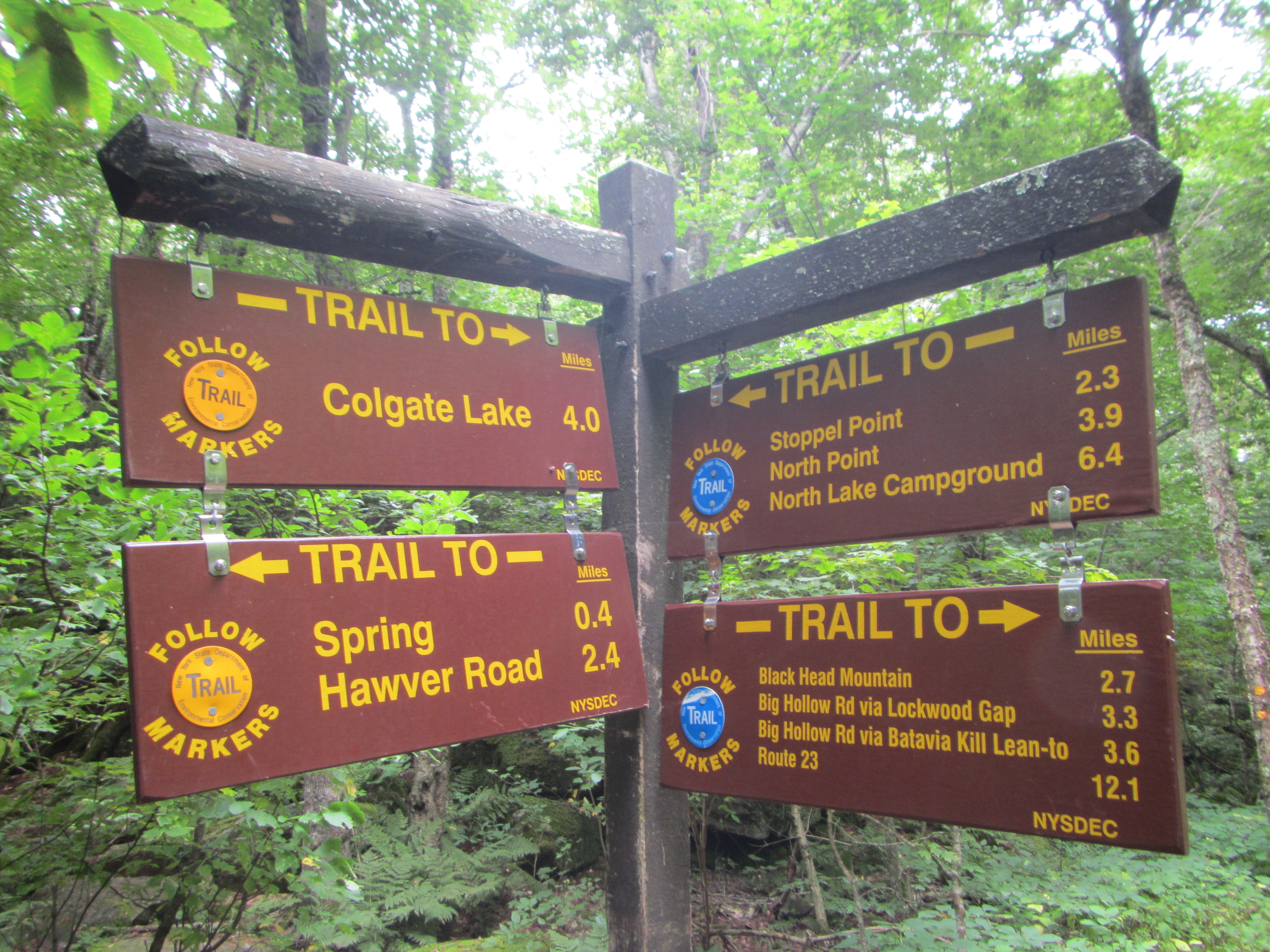 juntion of Stoppel Point to Blackhead Mountain trail and Colgate Lake traik